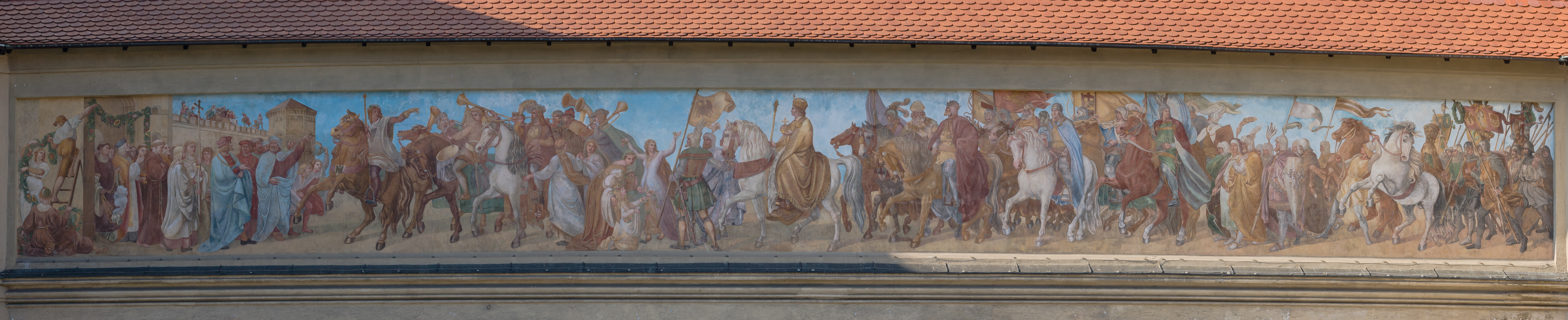 Isartor, Munich, Germany